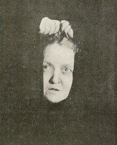 A photograph of Eusapia Palladino with fake ectoplasm hands.